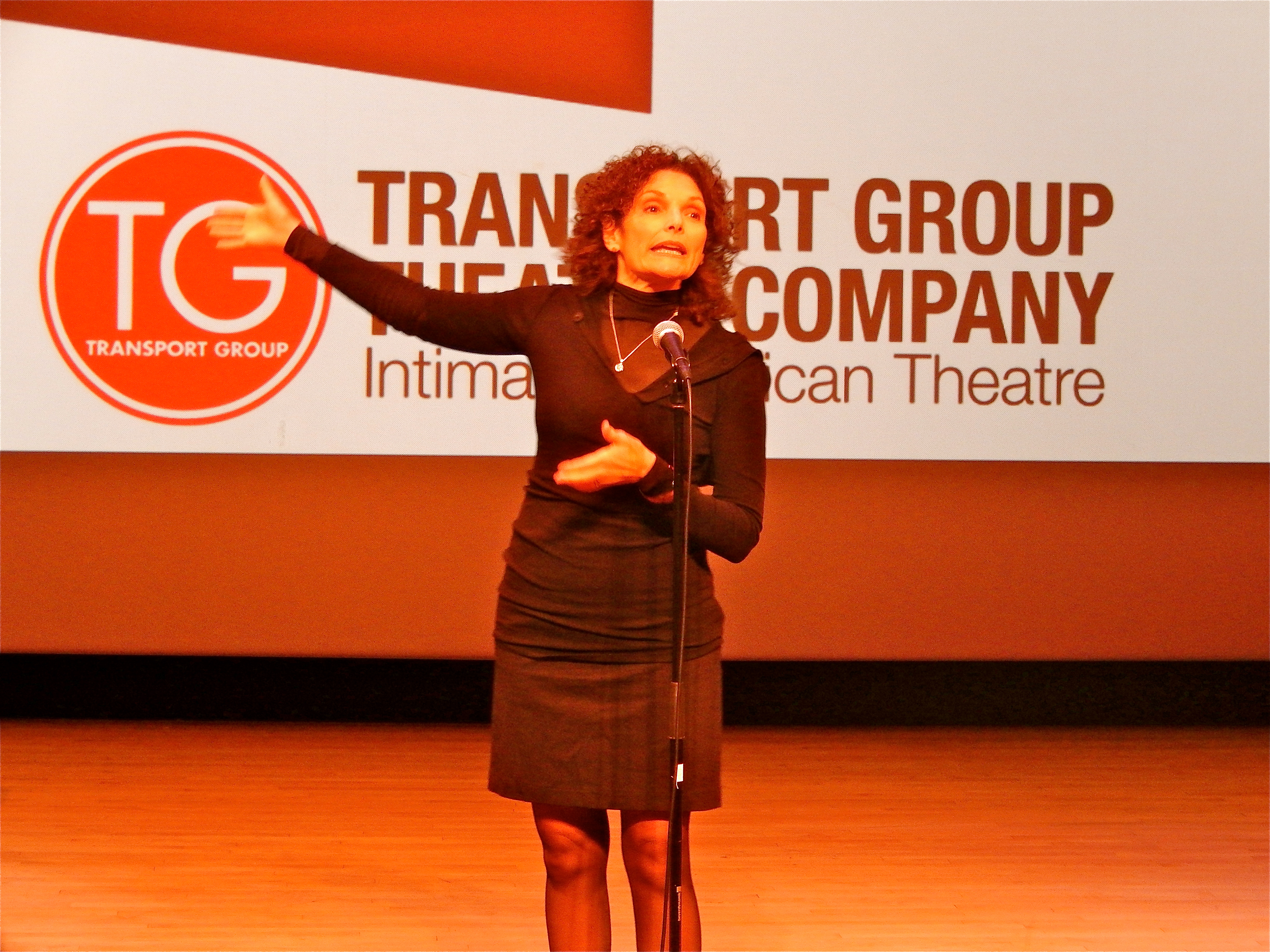 Mary Elizabeth Mastrantonio at the 'Gimme A Break!' Transport Group Gala 2013. The Asia Society. NYC. 12.9.13.